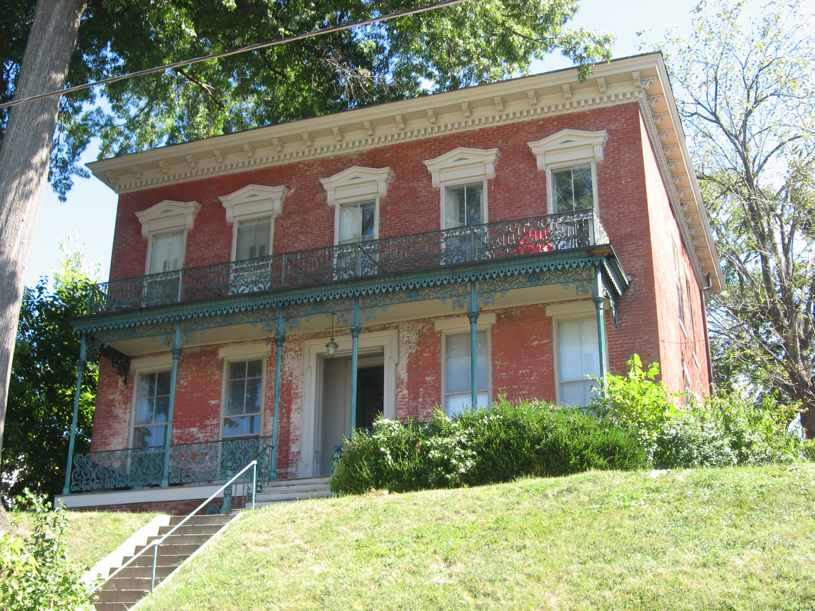 Front and western side of the Nicholas Finzer House, located at 1212 Hull Street in Louisville, Kentucky, United States. Built in 1870, it is listed on the National Register of Historic Places.